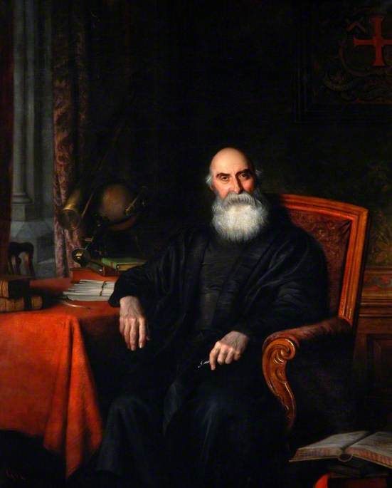 The Reverend Temple Chevallier (1794–1873)-Charles West Cope (1811–1890)-Durham University